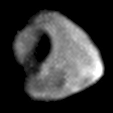 This image of Thebe was taken by NASA's Galileo spacecraft on January 4, 2000, at a range of 193,000 kilometers.